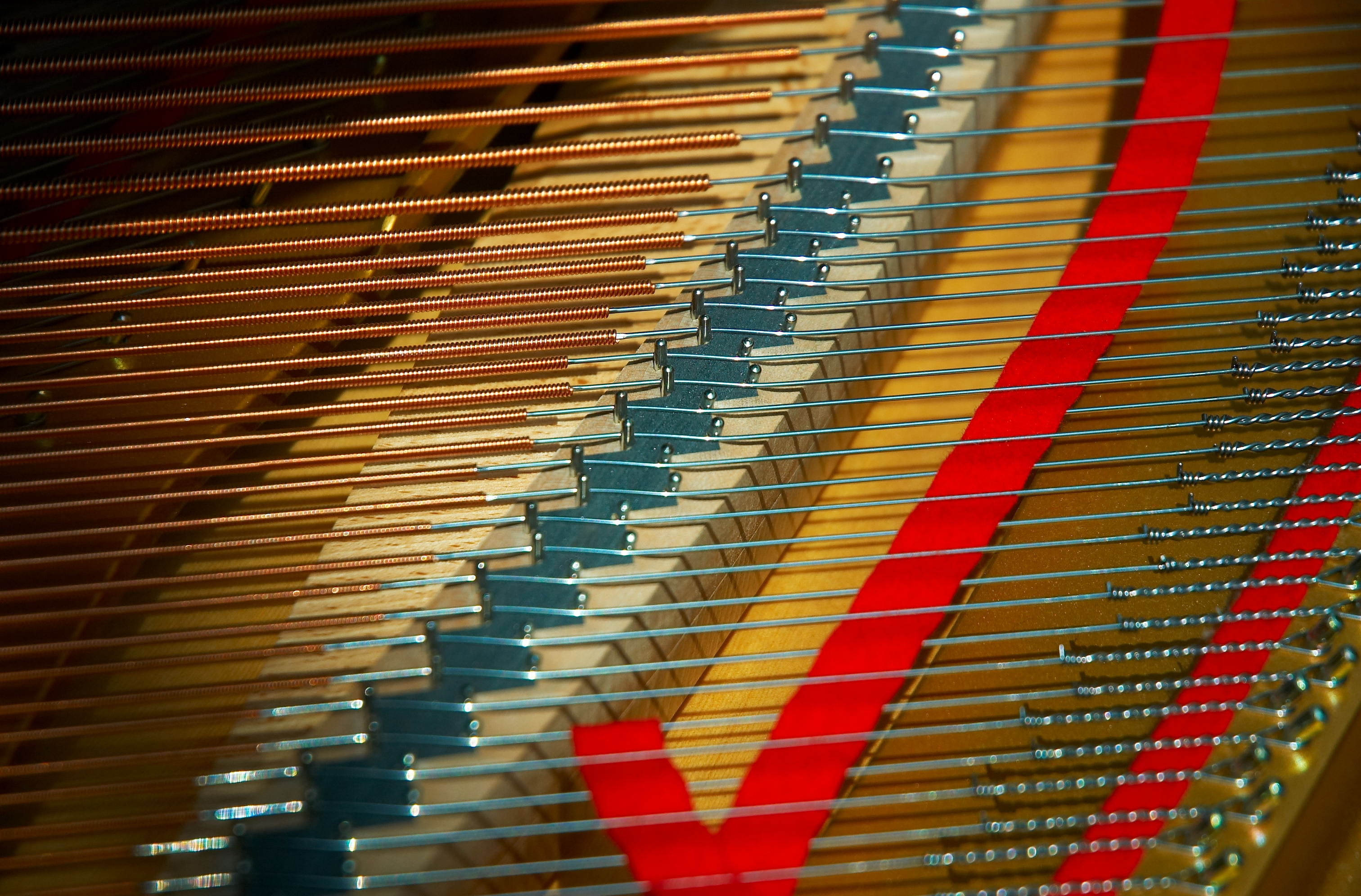 Piano strings